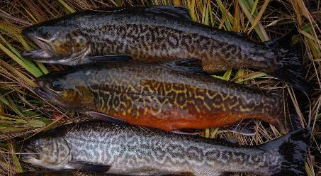 3 examples of Tiger Trout